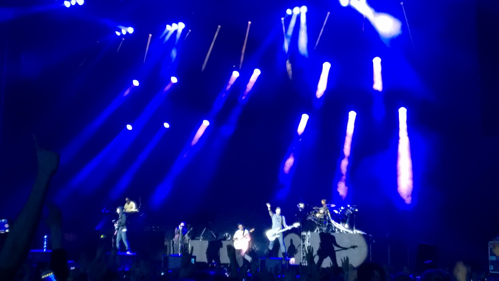 Linkin Park performing in Himos, Jämsä, on 31 August 2015 as part of their "The Hunting Party Tour".